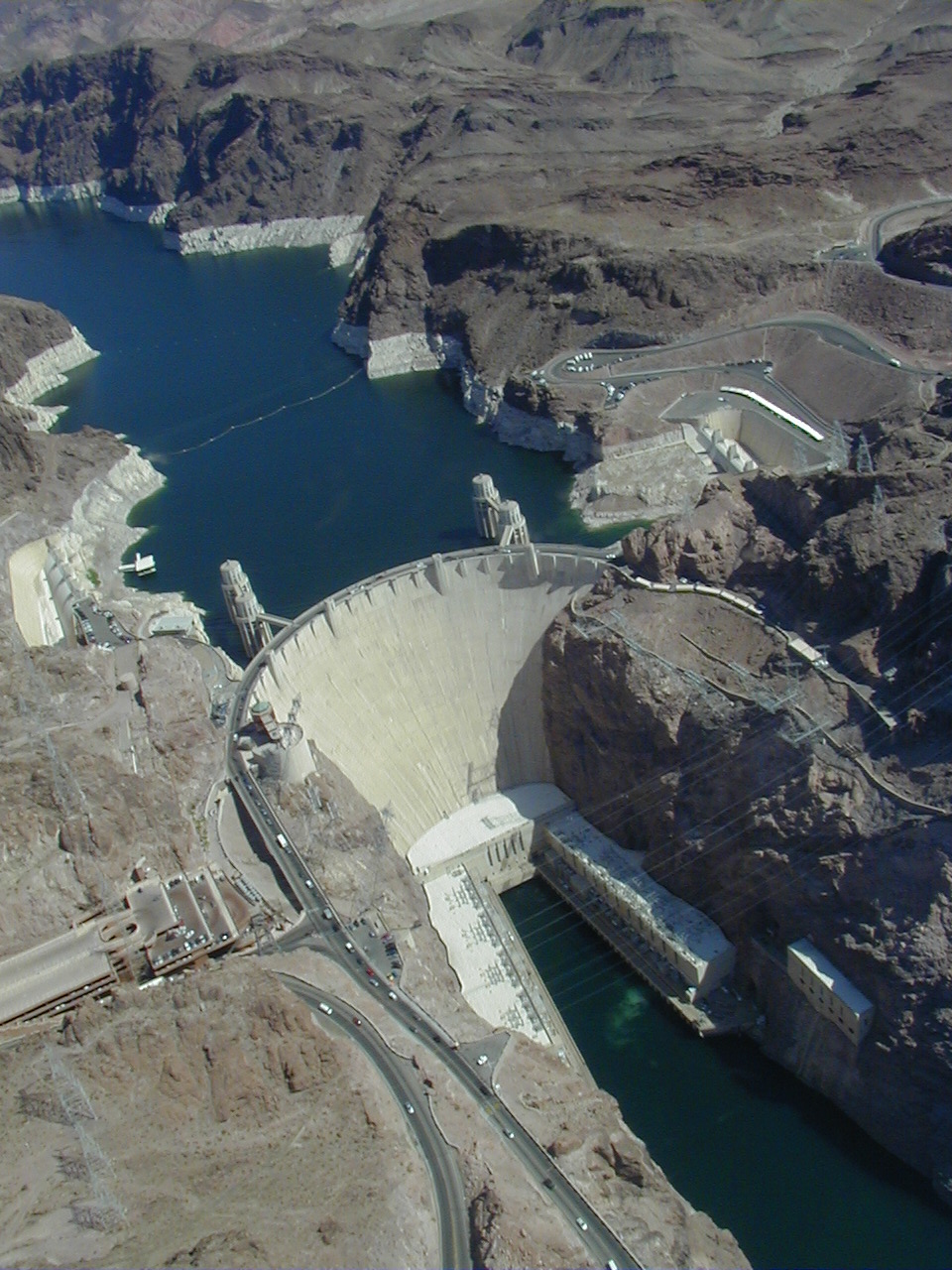 Hoover Dam from the air